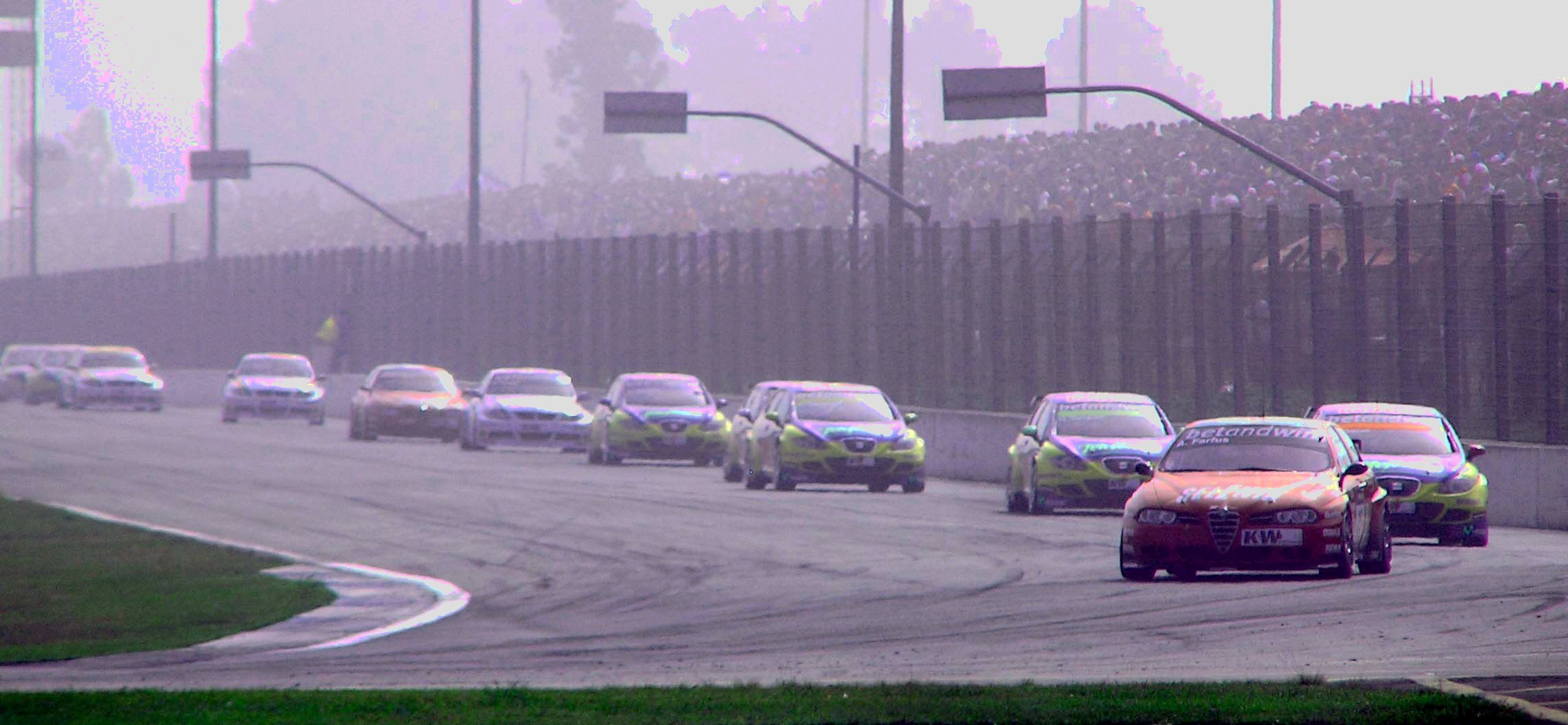 World Touring Car Championship 2006 Race 9 CuritibaAlfa Romeo 156 Augusto Farfus Jr.